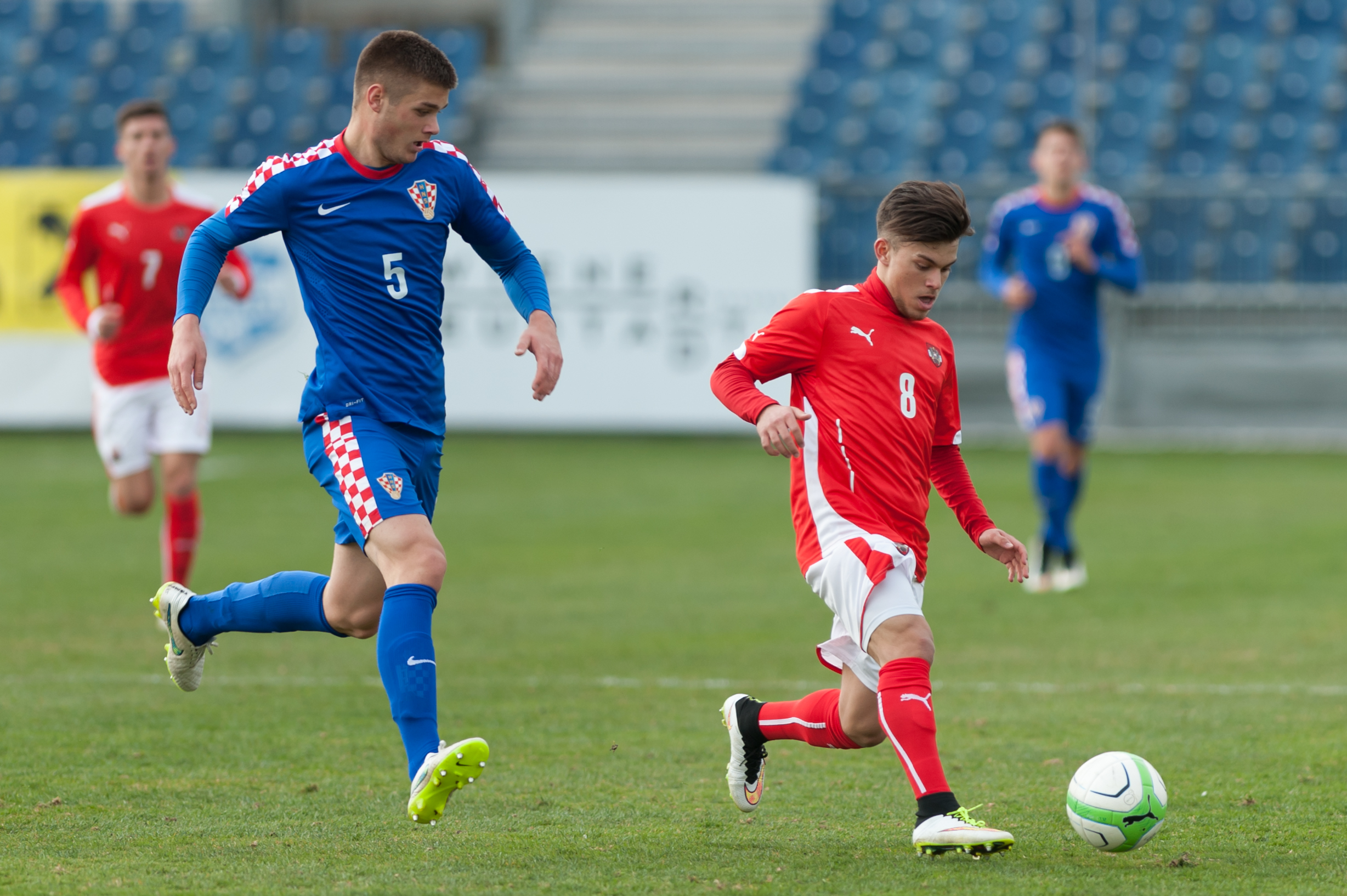 European Under-19 Championships 2015 Elite Round, Austria vs. Croatia, 28/03/2015 Wiener Neustadt, Lower Austria